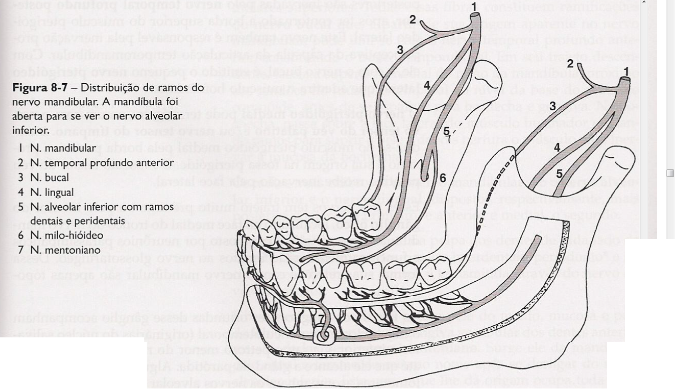 Nervo bucal Nervo alveolar inferior Nervo mentoniano Nervo lingual Nervo lingual